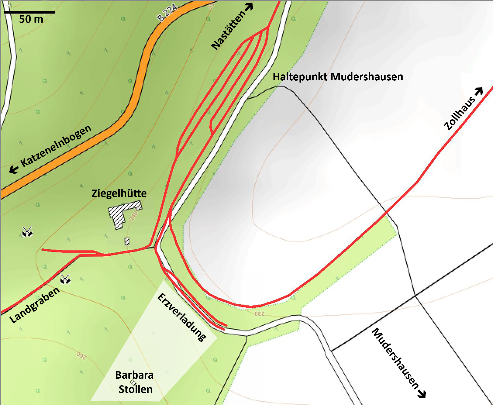 Railway map of Zollhaus mine and station Mudershausen. In red colorː narrow-gauge railway (Nassauische Kleinbahn). Railway existed between 1901 and the 1960ties. The coordinate is given for the train station Mudershausen.